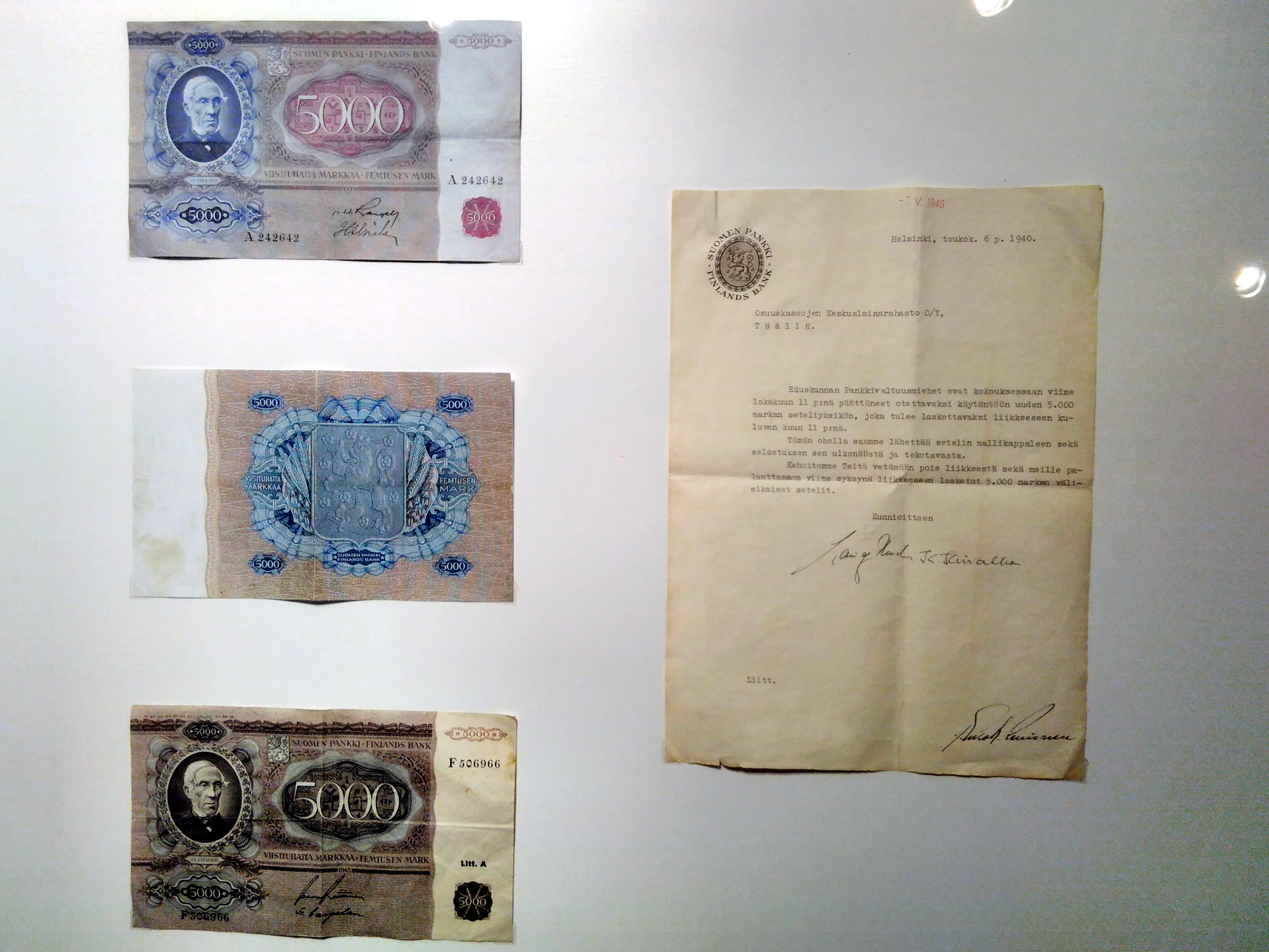 Finnish 5000 markka banknotes (1940), seen in OP Financial Group’s museum, Vallila, Helsinki.